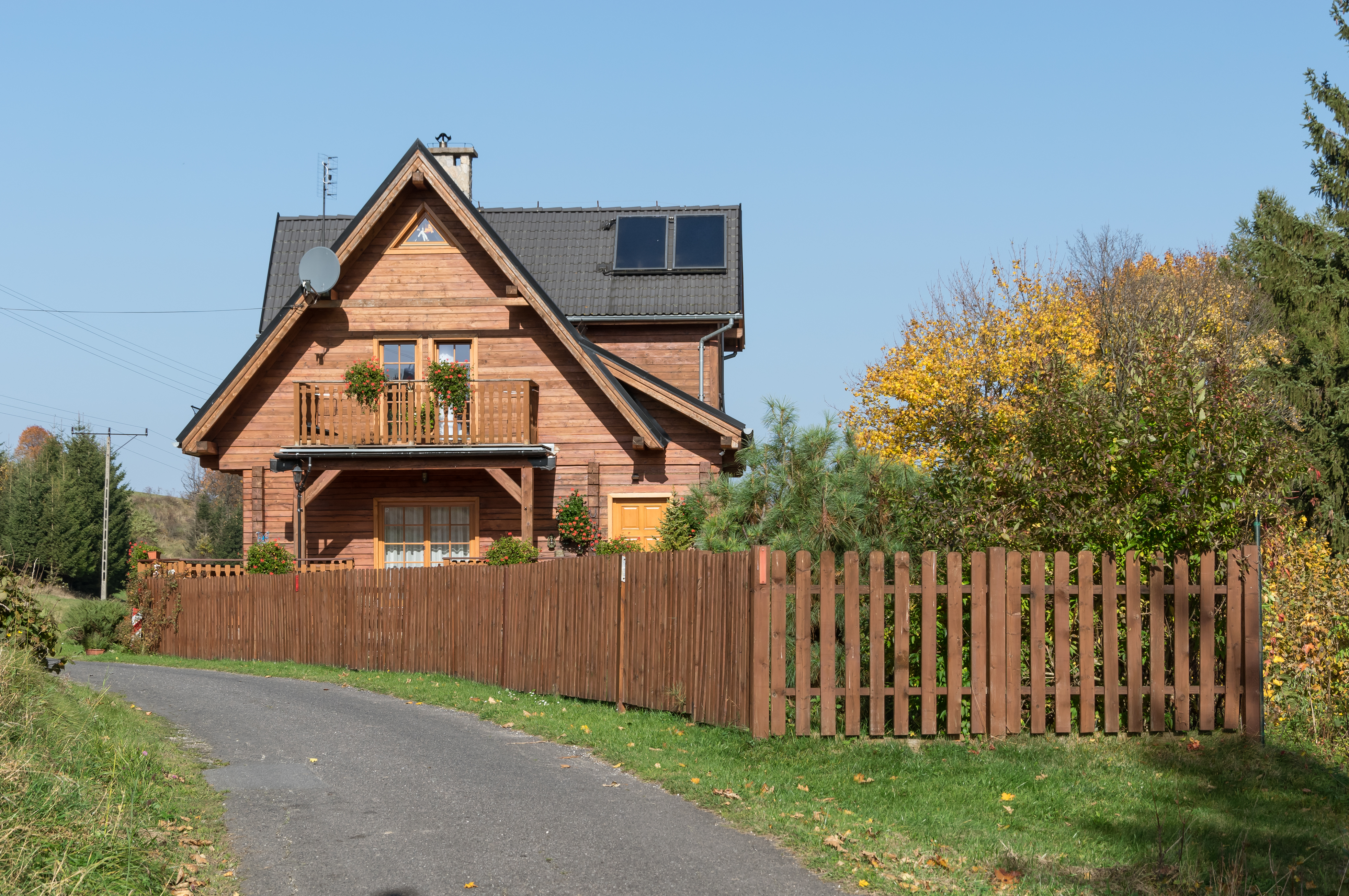 House No. 16 in Stara Morawa